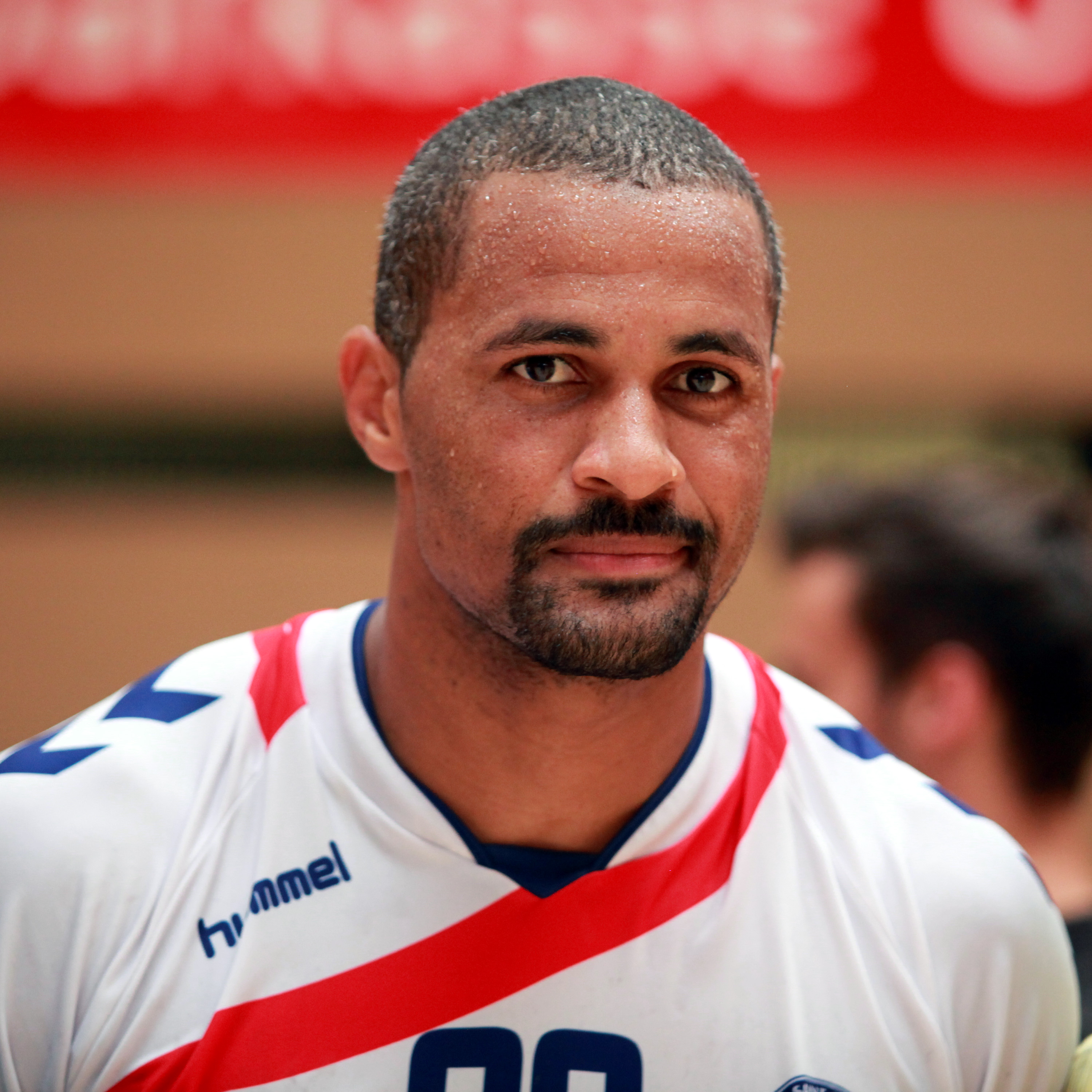 Didier Dinart, French handball player from Paris Saint-Germain Handball on August 20th, 2012 in Ehingen (Germany), during the EVFH-Cup (formerly known as Schlecker Cup).